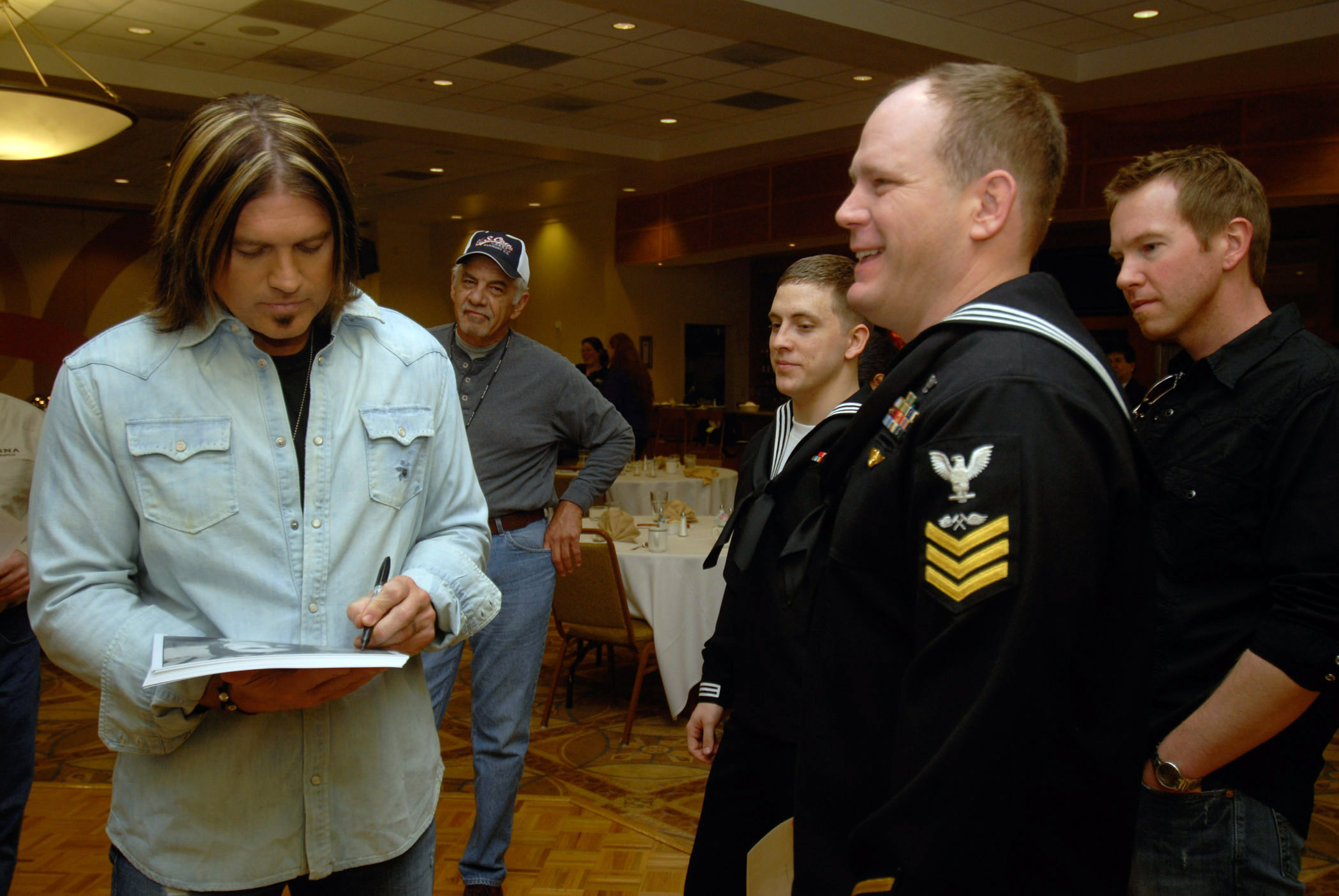 Billy Ray Cyrus gives the U.S. Navy a visit.